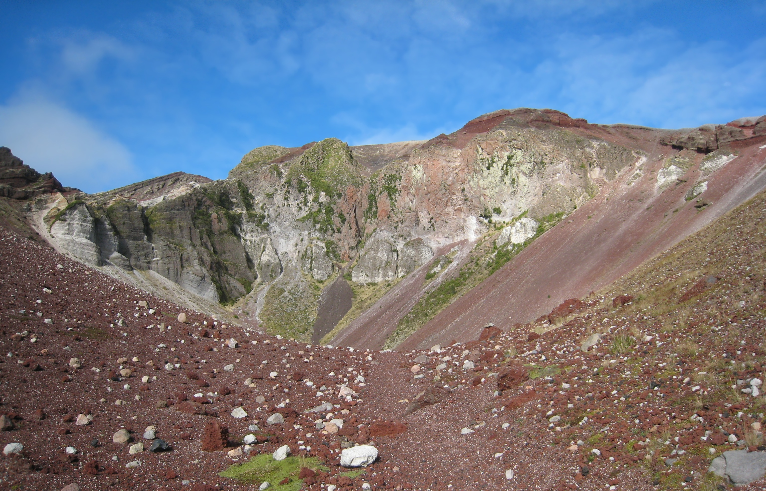 View from the middle of the fissure running across the top of Mount Tarawera. This fissure was created when the mountain exploded in 1886.